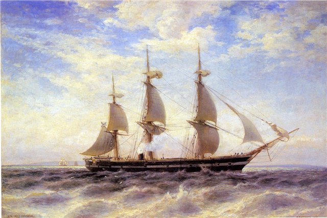 Alexander Karlovich Beggrov (1841-1914) The Steam Frigate "Svetlana"